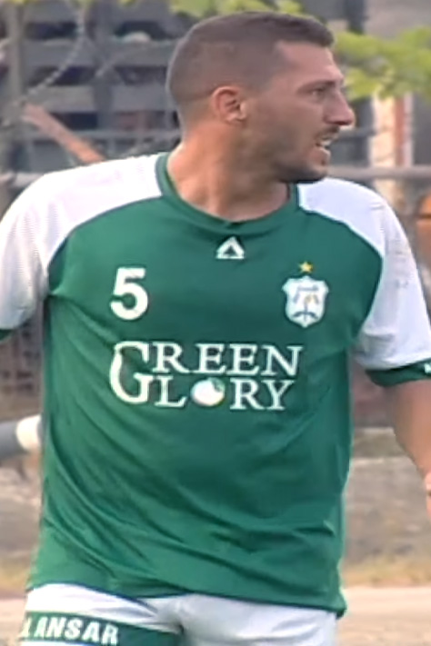 Nassar Nassar with Ansar against Shabab Sahel during the 2019-20 Lebanese Premier League